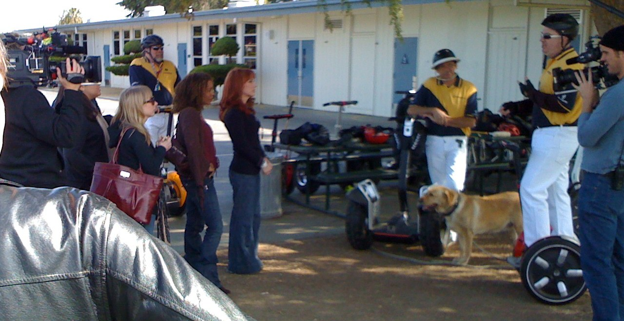 That's John in the leather jacket, whose email Arlo forwarded to me, that got me involved in this in the first place.